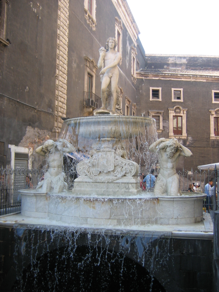 The Fountain Of River Amenano in Catania (Italy), sculpted by Tito Angelini in 1867, near Piazza Duomo square. Picture by Urban. Body : Canon Powershot A80 Date : August, 2005